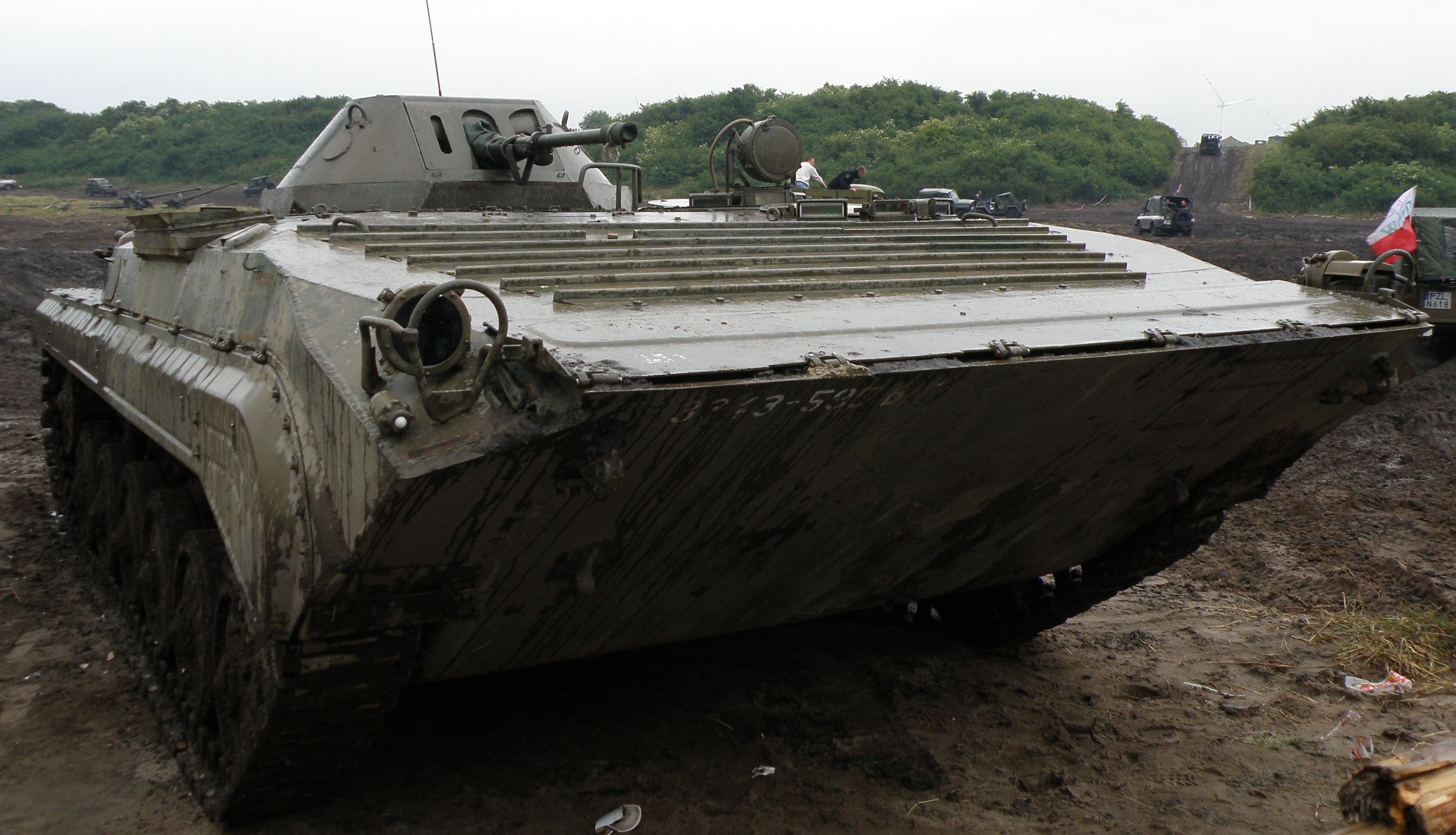 The 10th International Rally of Historical Army Vehicles in Darłowo, Poland